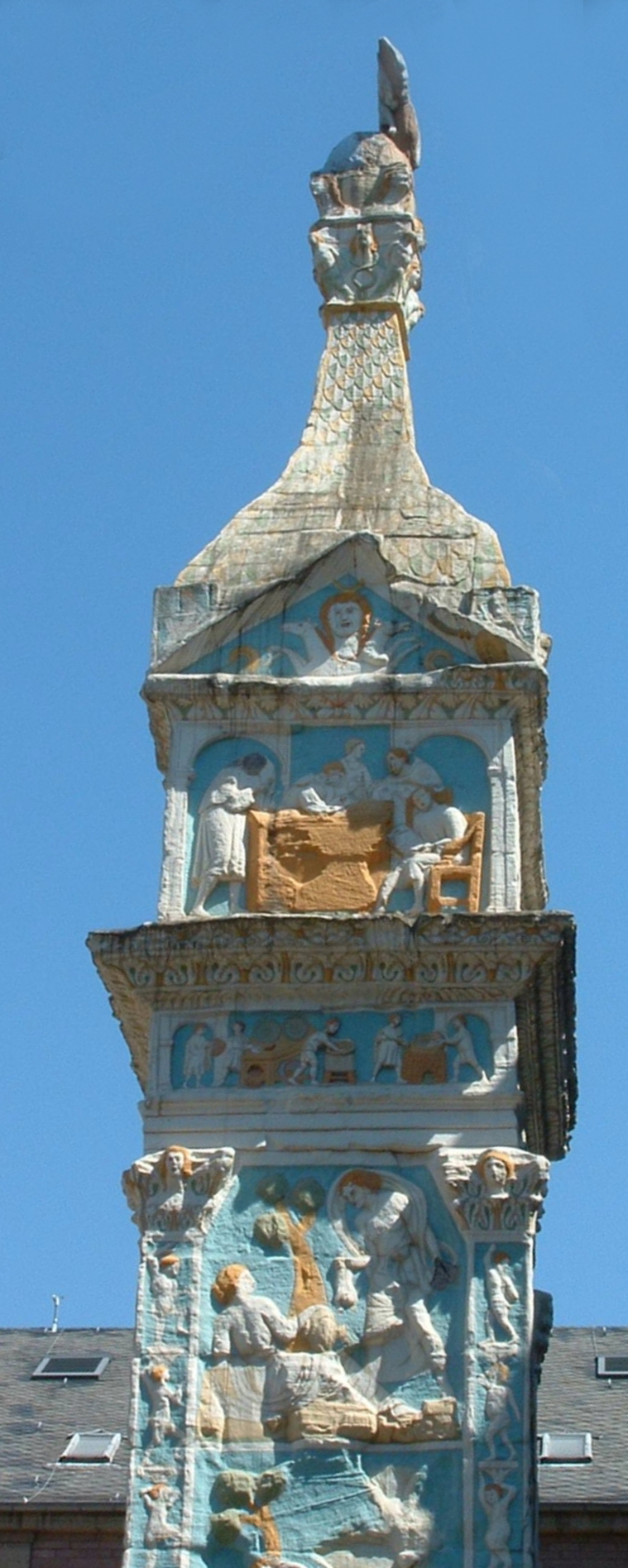 The reconstructed version of the Igel column in the courtyard of the Rheinisches Landesmuseum in Trier, Germany.